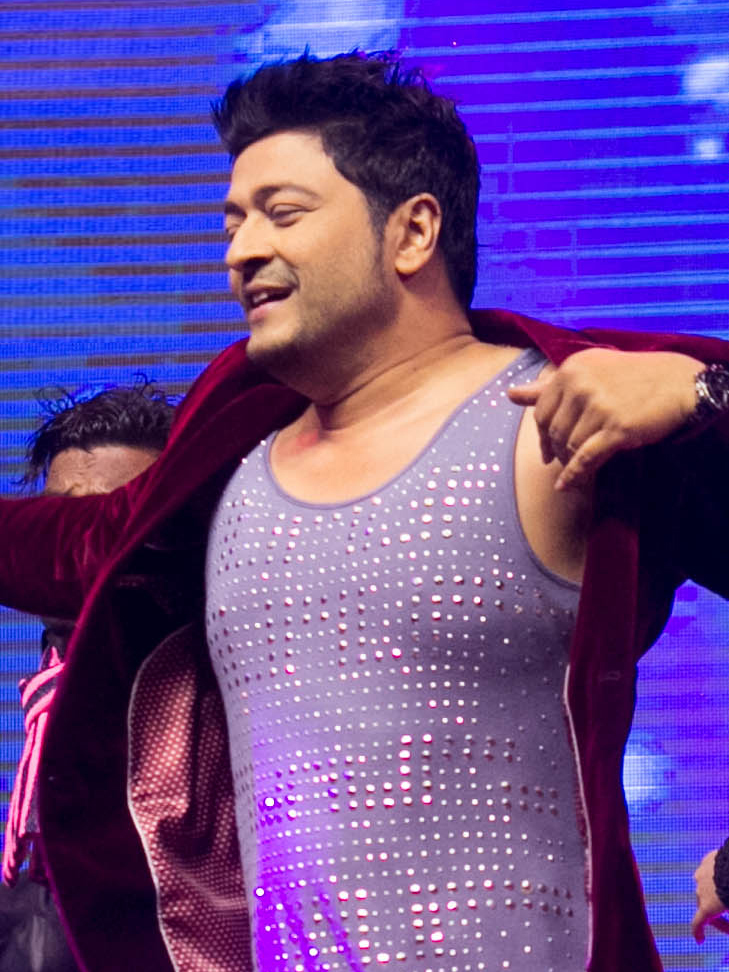 Tanjin Tisha is dancing with Ferdous Ahmed at The Palace Luxury Resort, Bahubal, Habiganj.